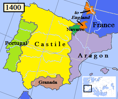 A map of Iberia, AD 1400.(Partially based on Euratlas map of Europe 1400.)